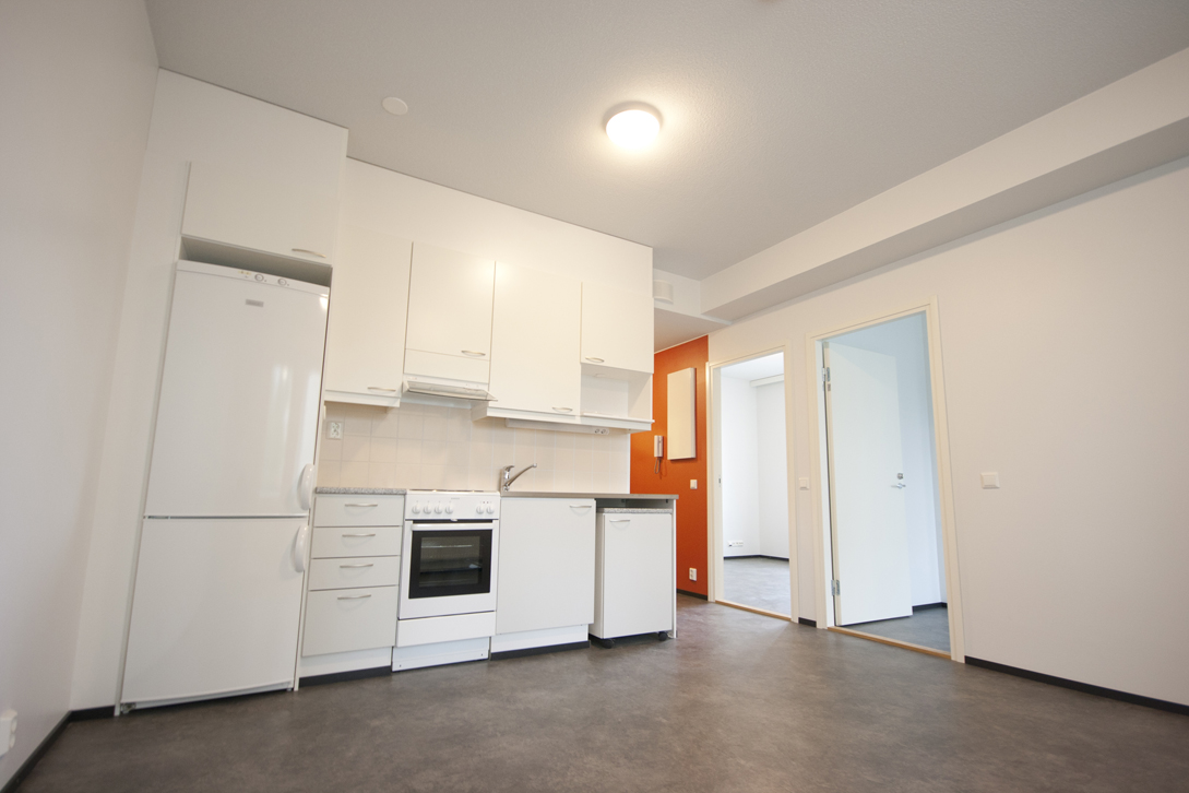 Shared apartment in TOAS Sepontalo in Tampere, Finland